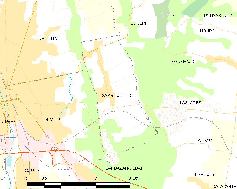 Map of French municipality